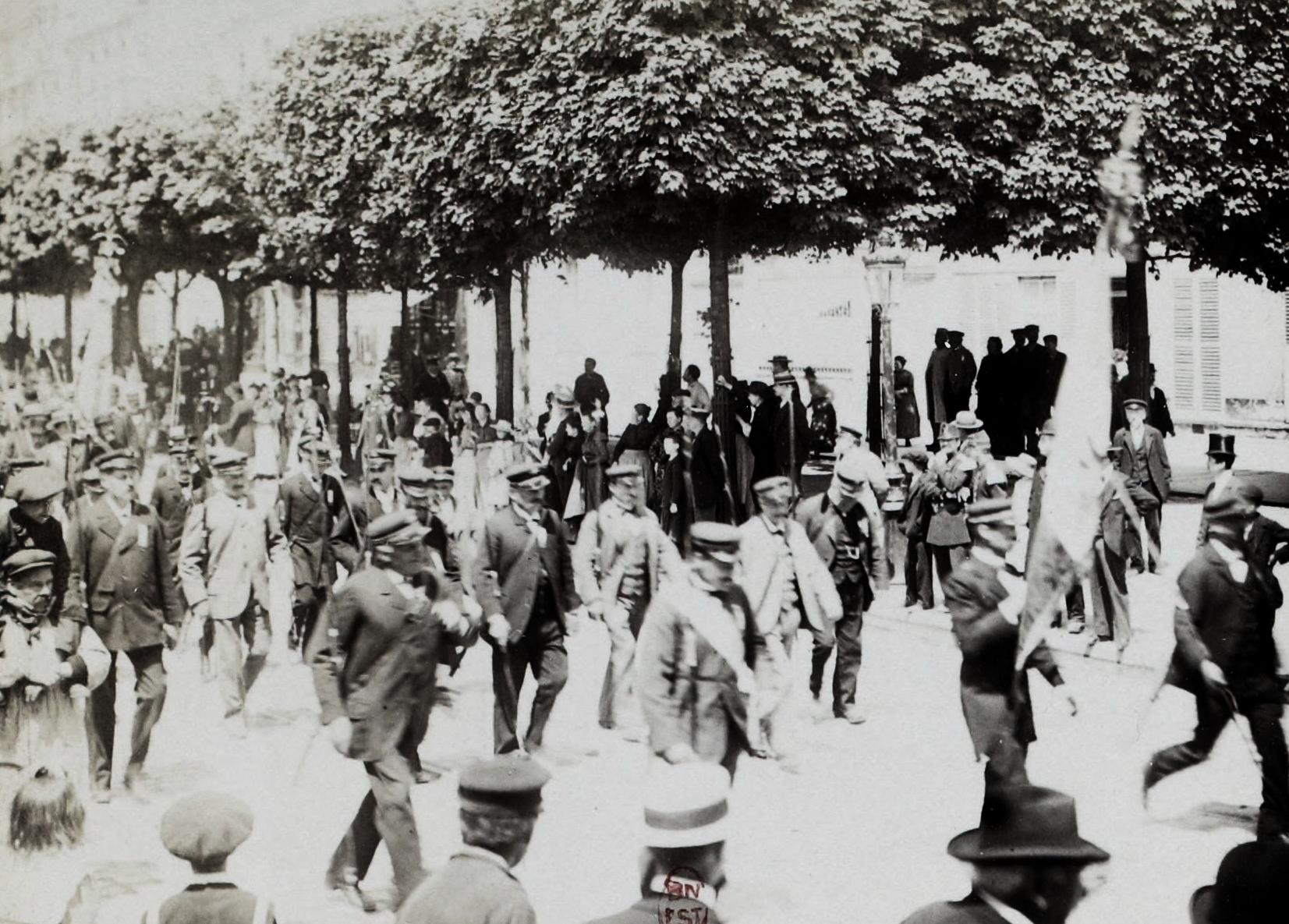 [Collection Jules Beau. Photographie sportive] : T. 13. Année 1900 / Jules Beau : F. 21. [Concours de tir à l'arc et à l' arbalète, 27 mai 1900] ; défilé de compagnie d'archers pour l'ouverture du concours de tir à l'arc des JO 1900 - p.45